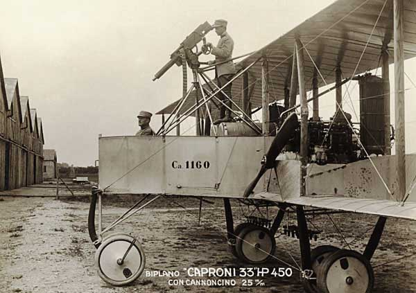 Caproni Ca.33 with 20 mm cannon